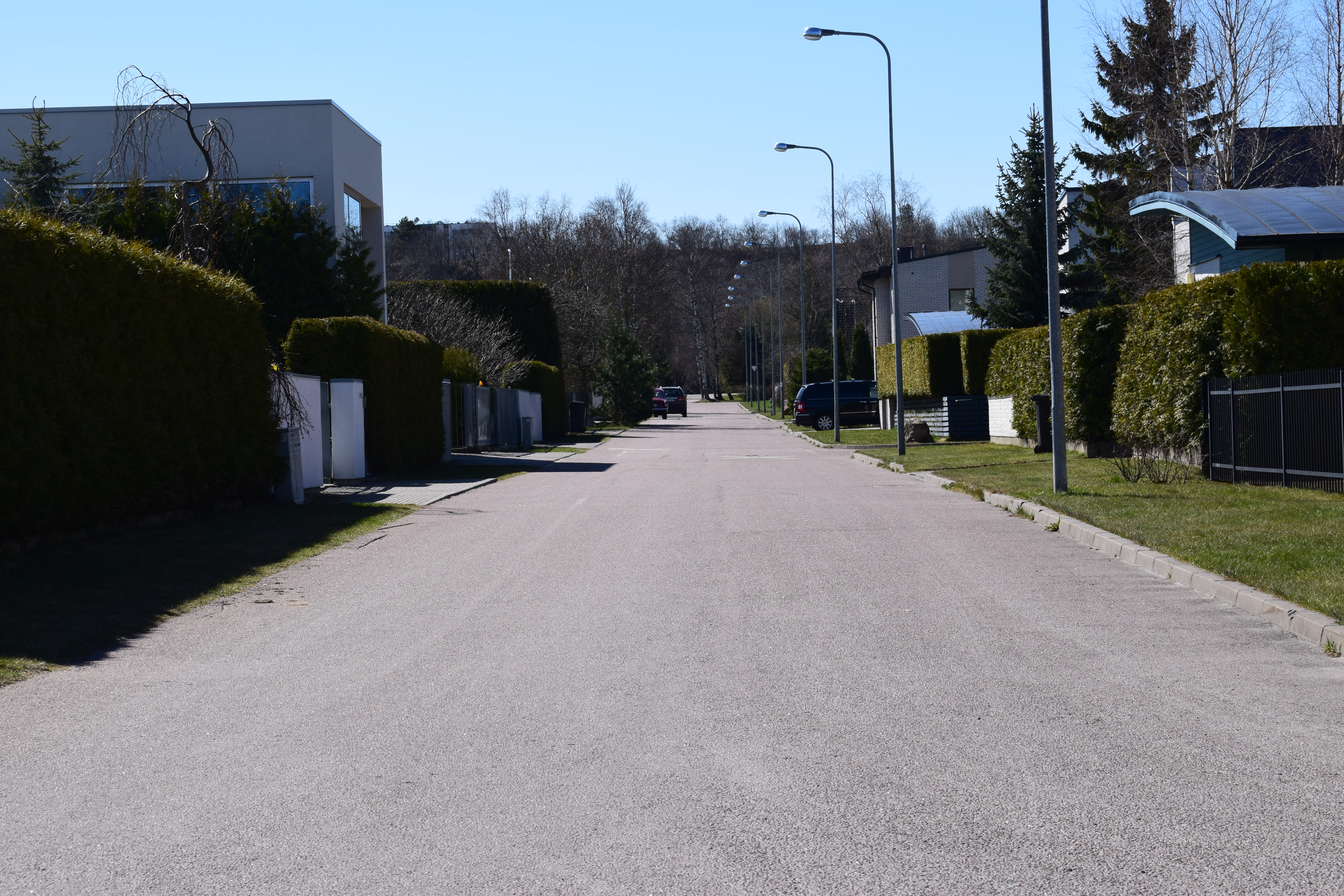 Kuslapuu street